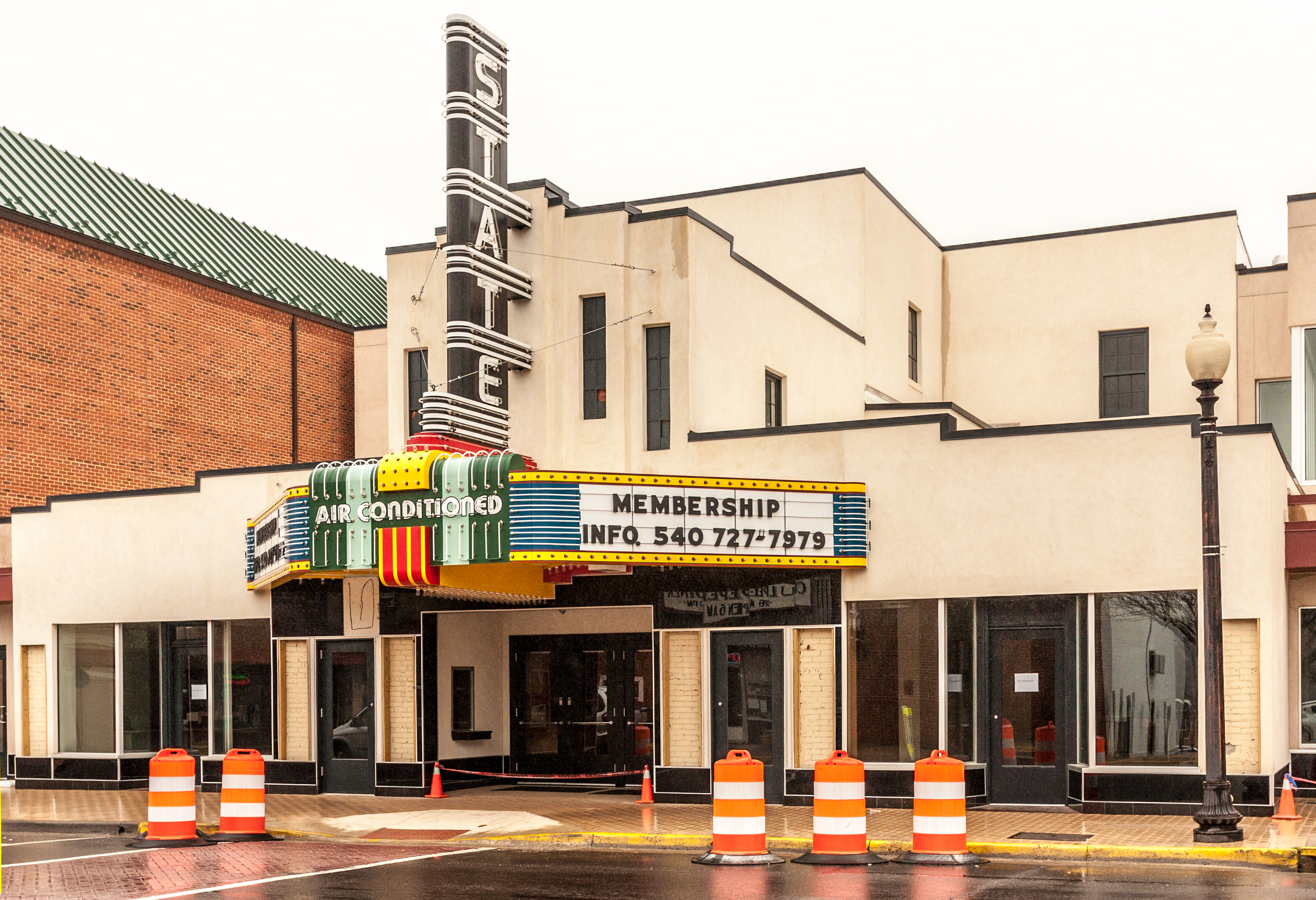 Pitts theatre builit in the first half of the 20th century, now undergoing major renovation as a cultural center.